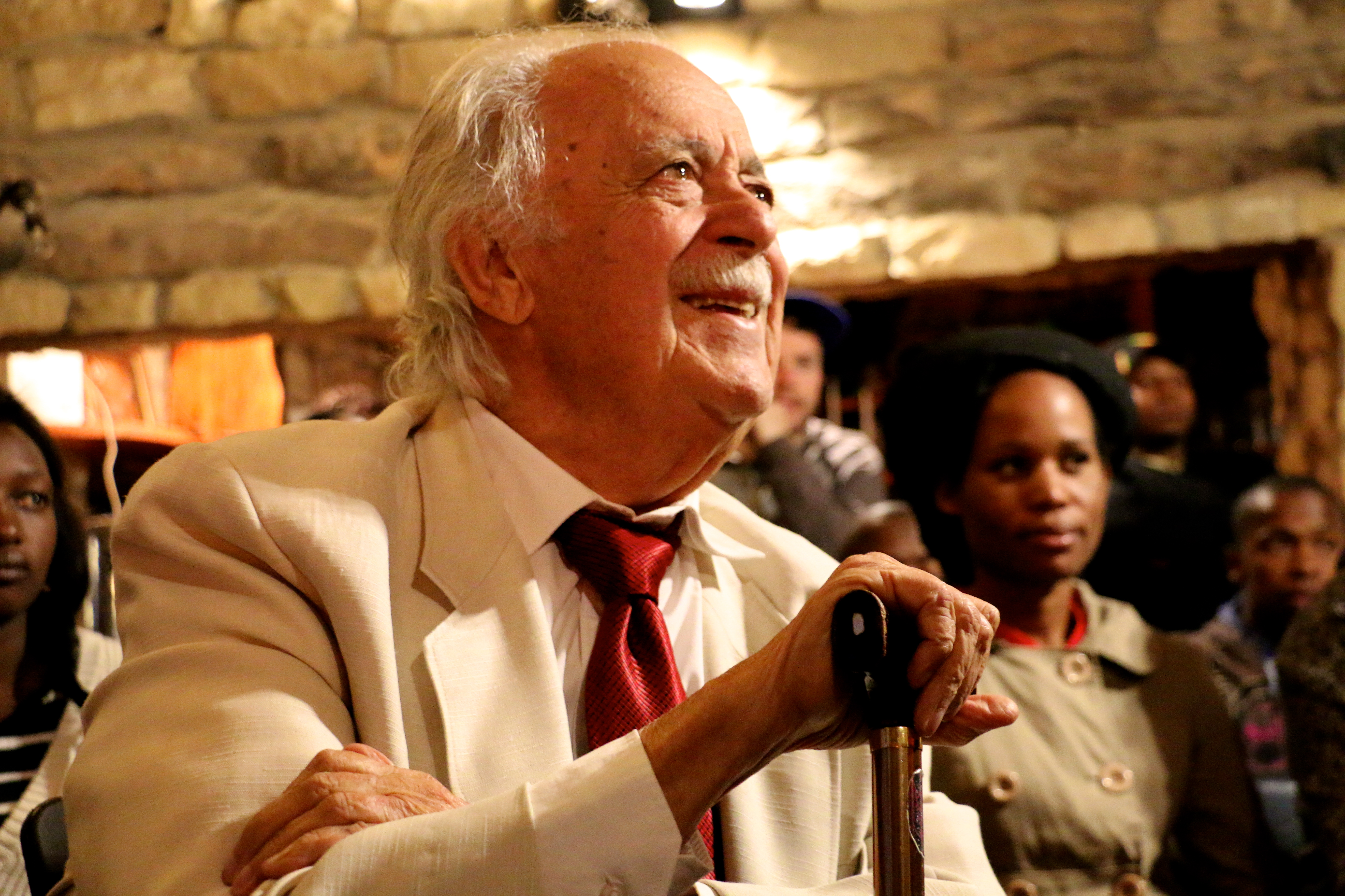 George Bizos - Youth Retreat